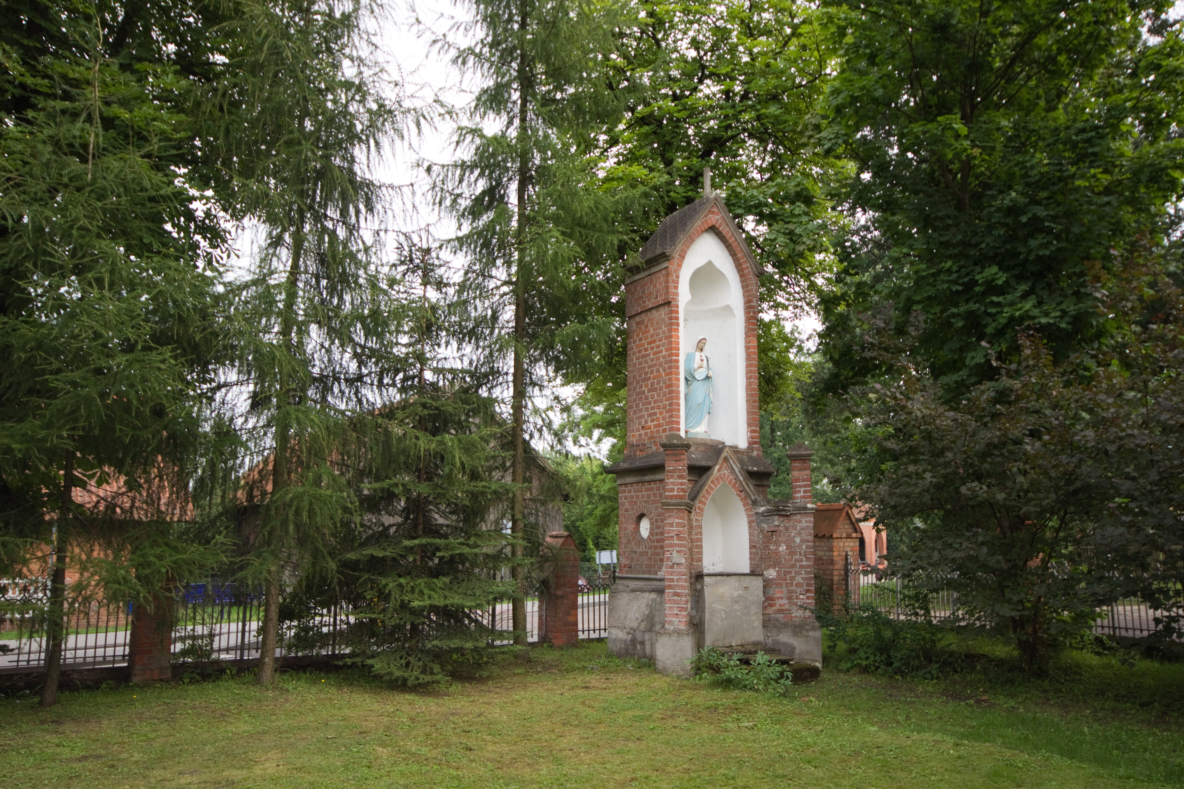 Church, Kolno, gmina Kolno, powiat olsztyński, Warmian-Masurian Voivodeship